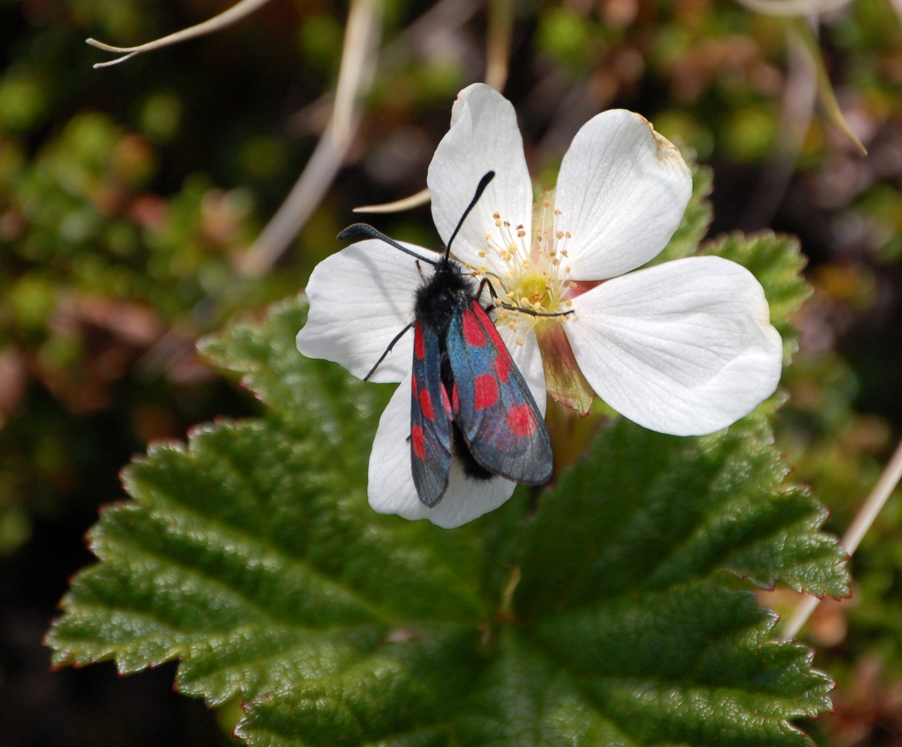 Zygaenidae